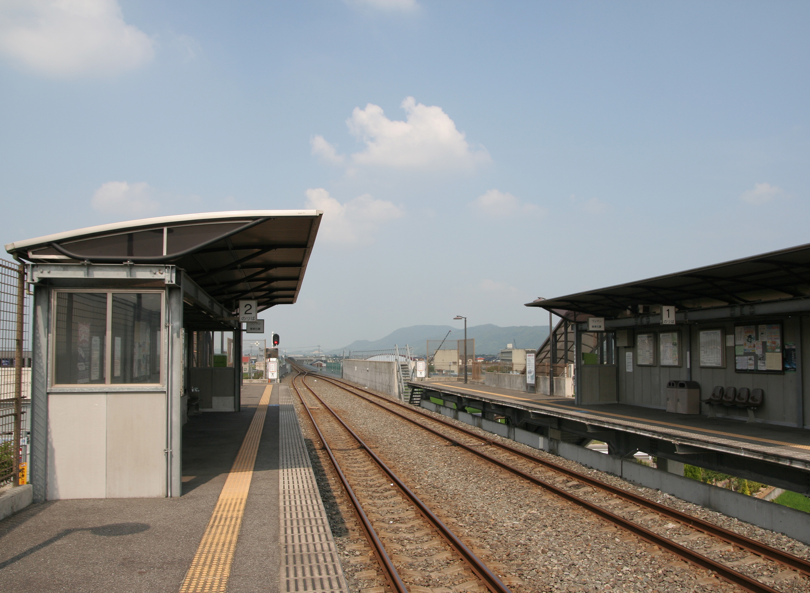 Ibara Railway kibino-makibi station enclosure